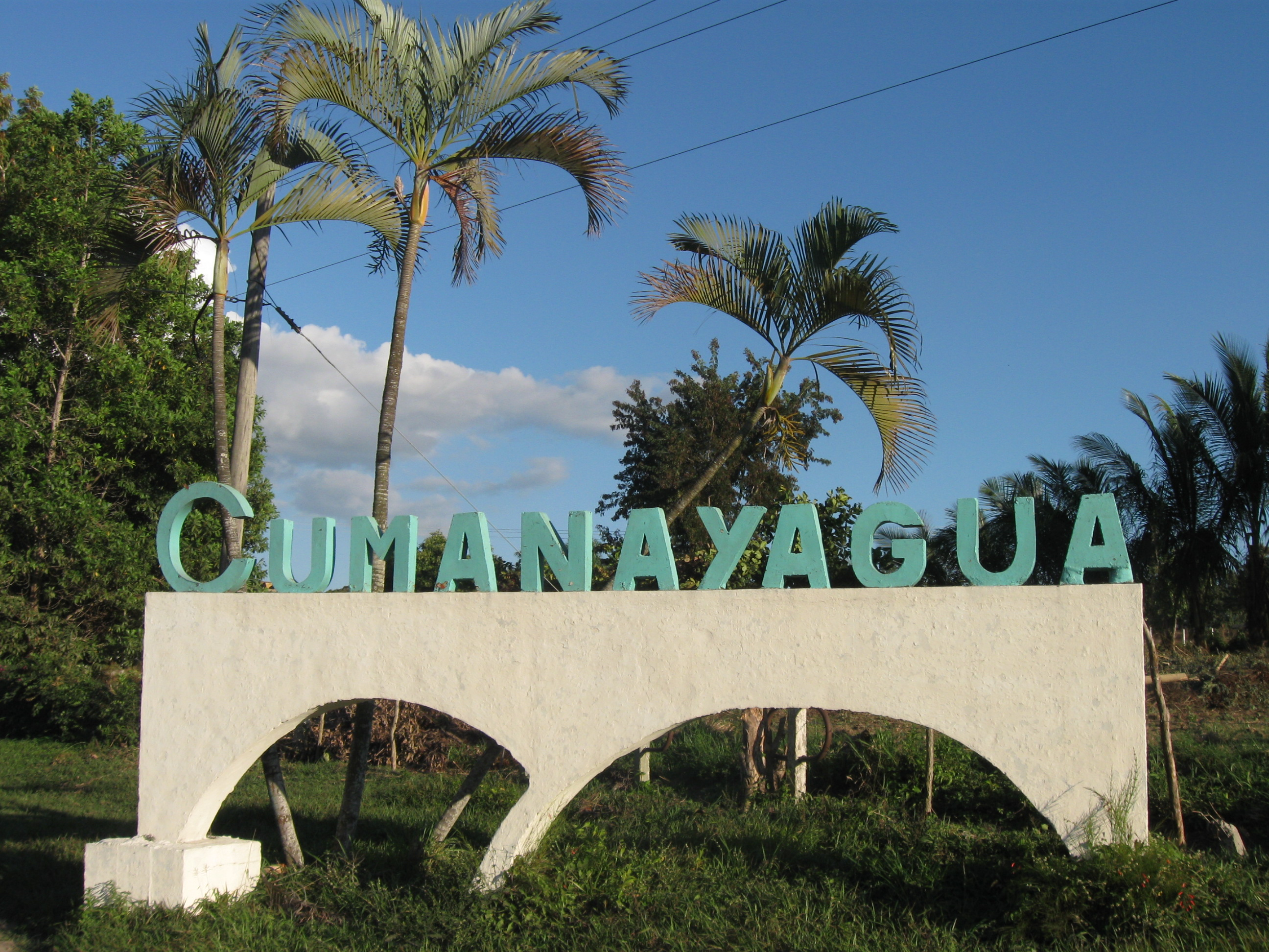 Cumanayagua's foto